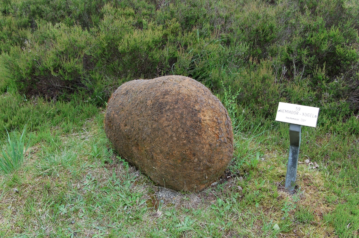 Pictures